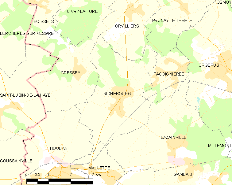 Map of French municipality Richebourg